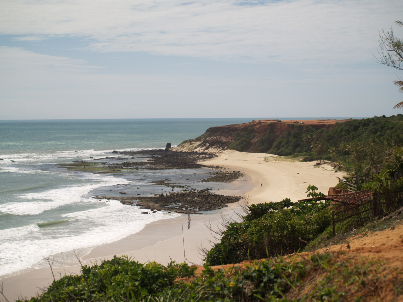 Pipa beach in Natal, Brazil.